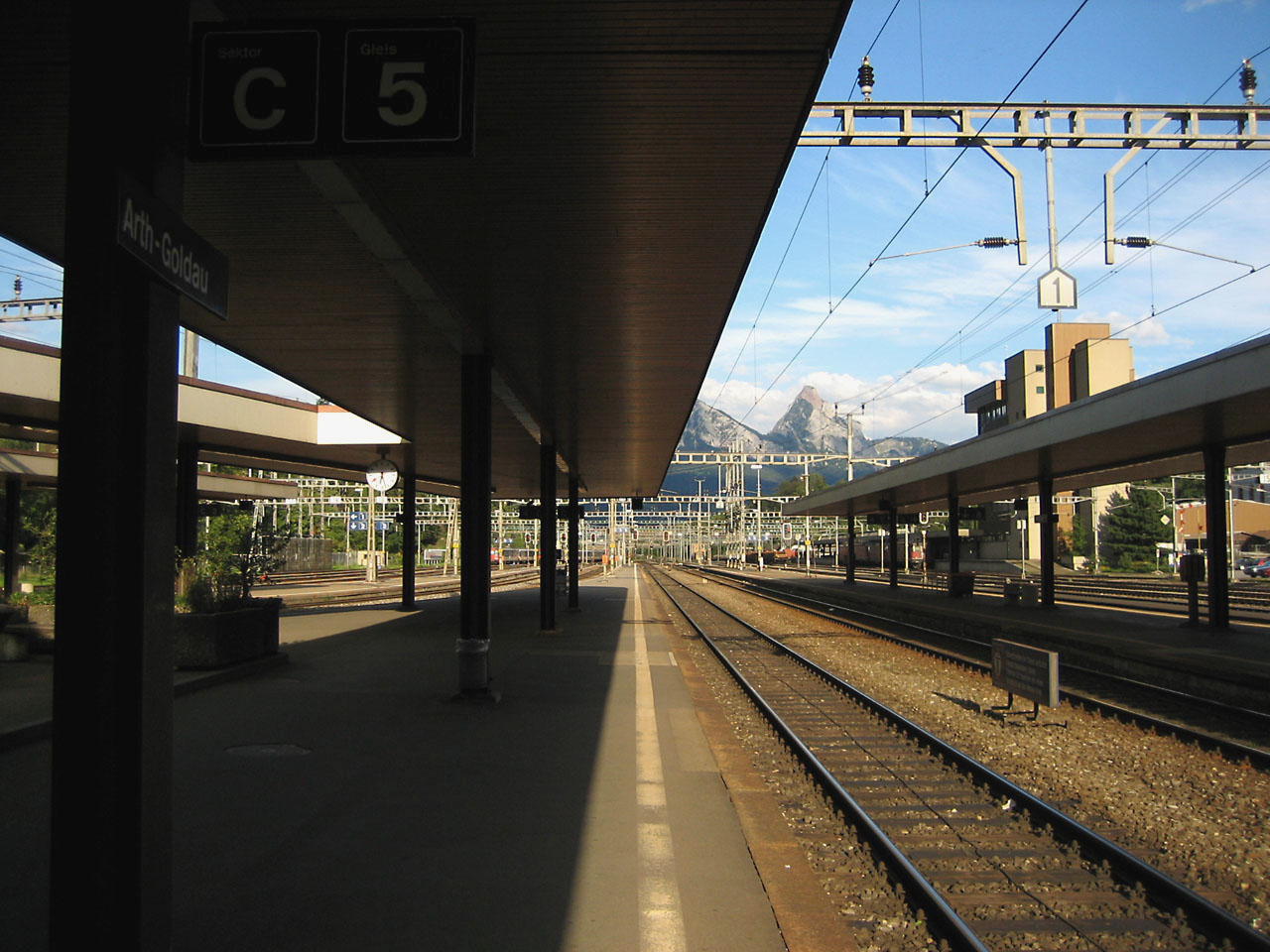 Arth-Goldau station between the villages Arth and Goldau in Canton Schwyz, Central Switzerland; the mountain in the background is the Grosser Mythen. Arth-Goldau is an important railway node of the Swiss Gotthardbahn.